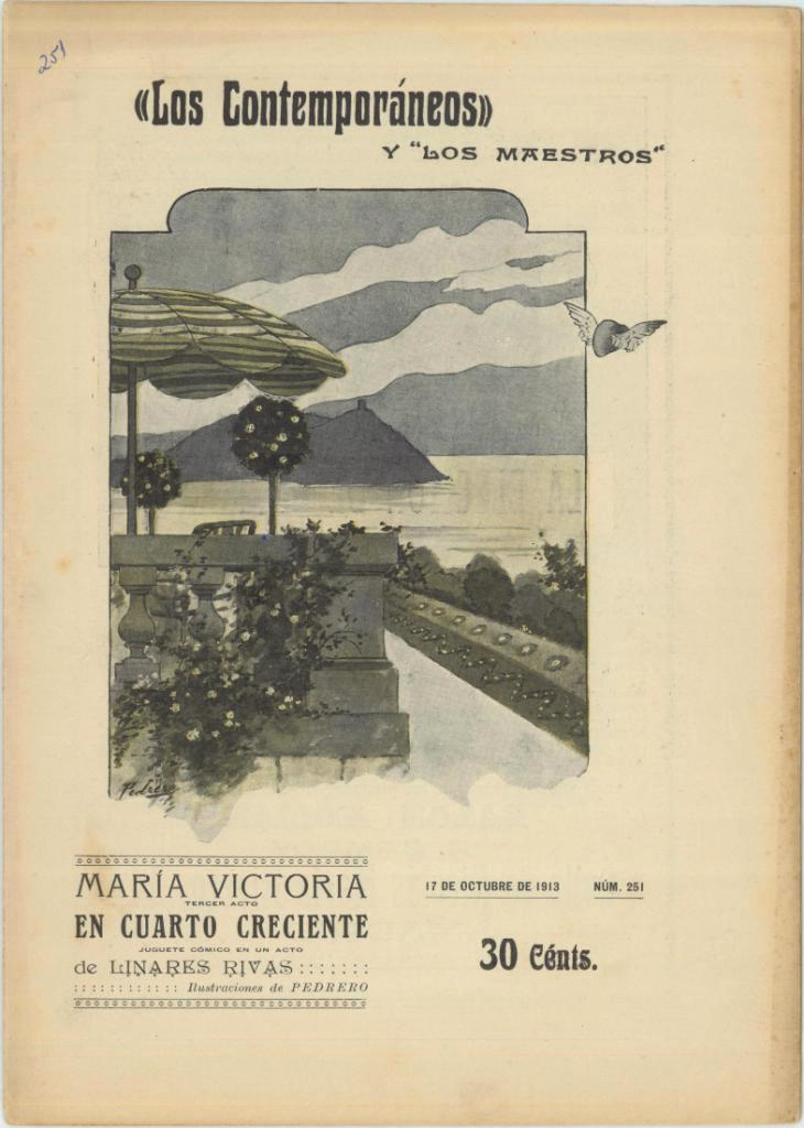 Los Contemporáneos, María Victoria, en Cuarto Creciente, Oct 1913, nº 251, cover by Mariano Pedrero